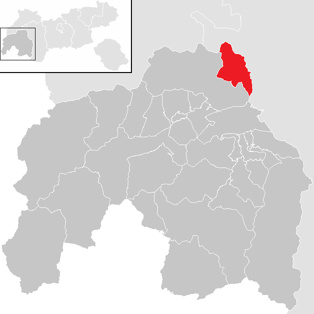 District Landeck